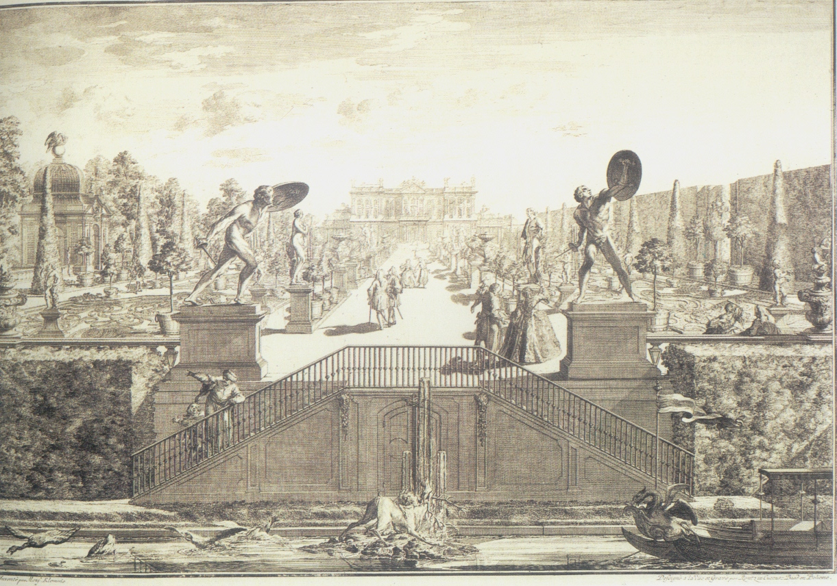 Baroque Gardens of Branicki Palace, in Białystok, Poland. 18th-century print by architect Pierre Ricaud de Tirregaille (French).